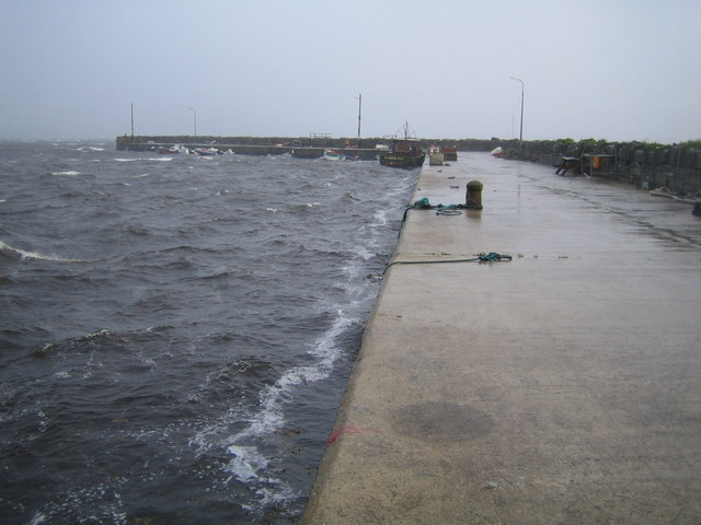 Bunaw Quay Viewed on a wild wet and windy morning when even the comparative haven of Kilmakilloge Harbour outside the quay did not offer much protection. The Maggie Pat is the large vessel tied up at the quay.